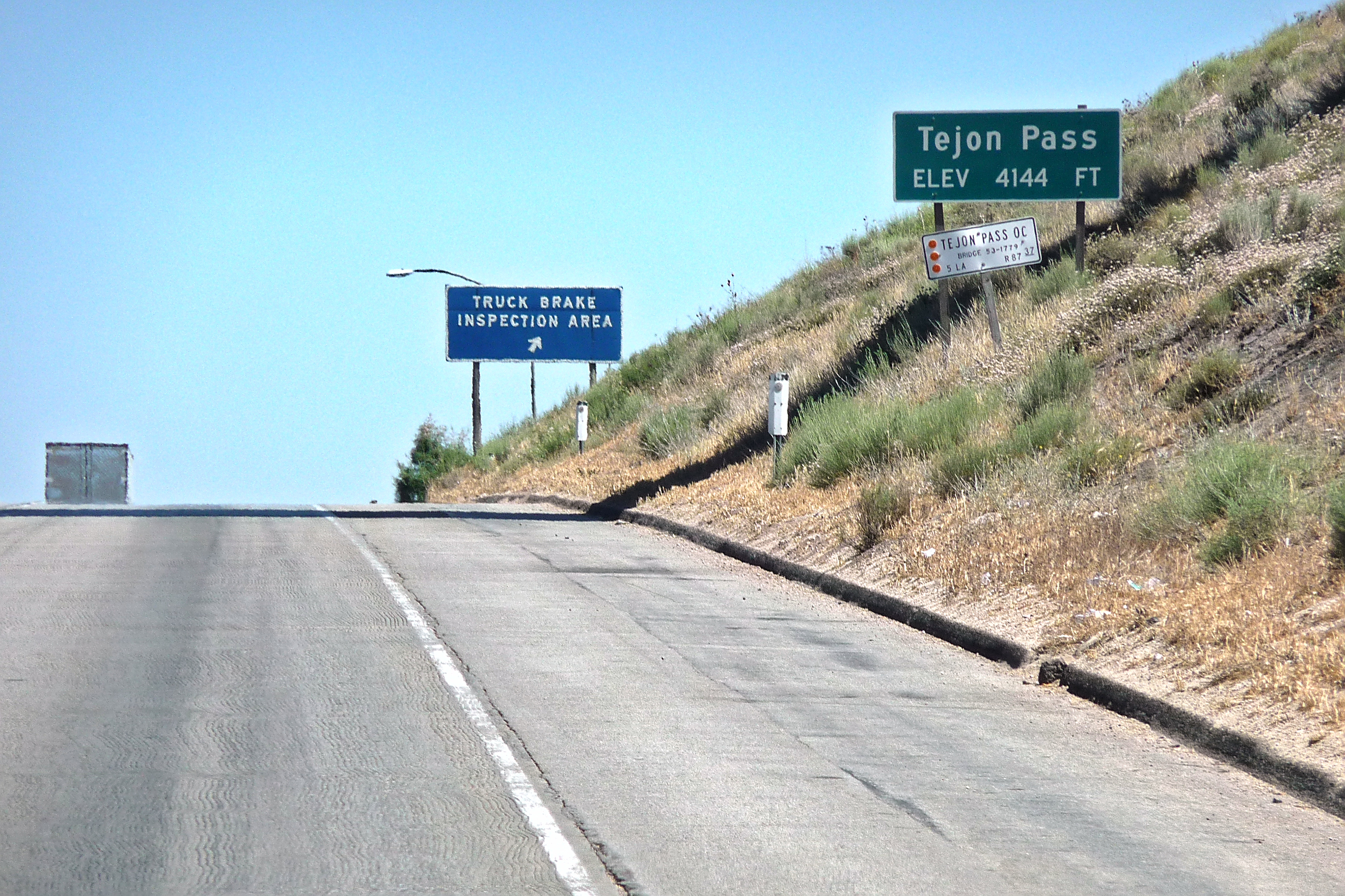 Sign at the crest of Tejon Pass — on I−5 in the Tehachapi Mountains, located in southeastern Kern County, California.